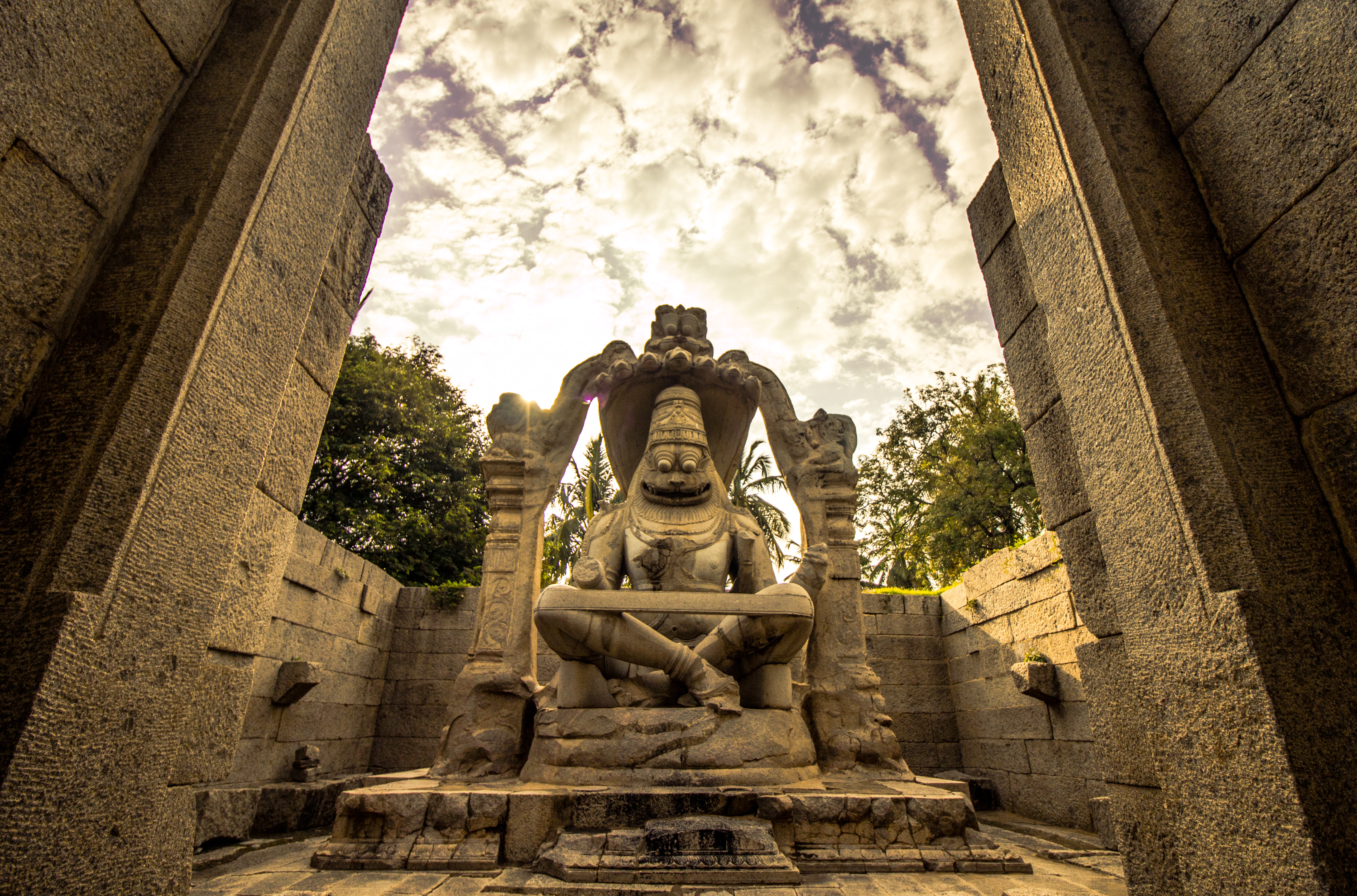 The Narasimha Vigraha Located in Hampi,Karnataka